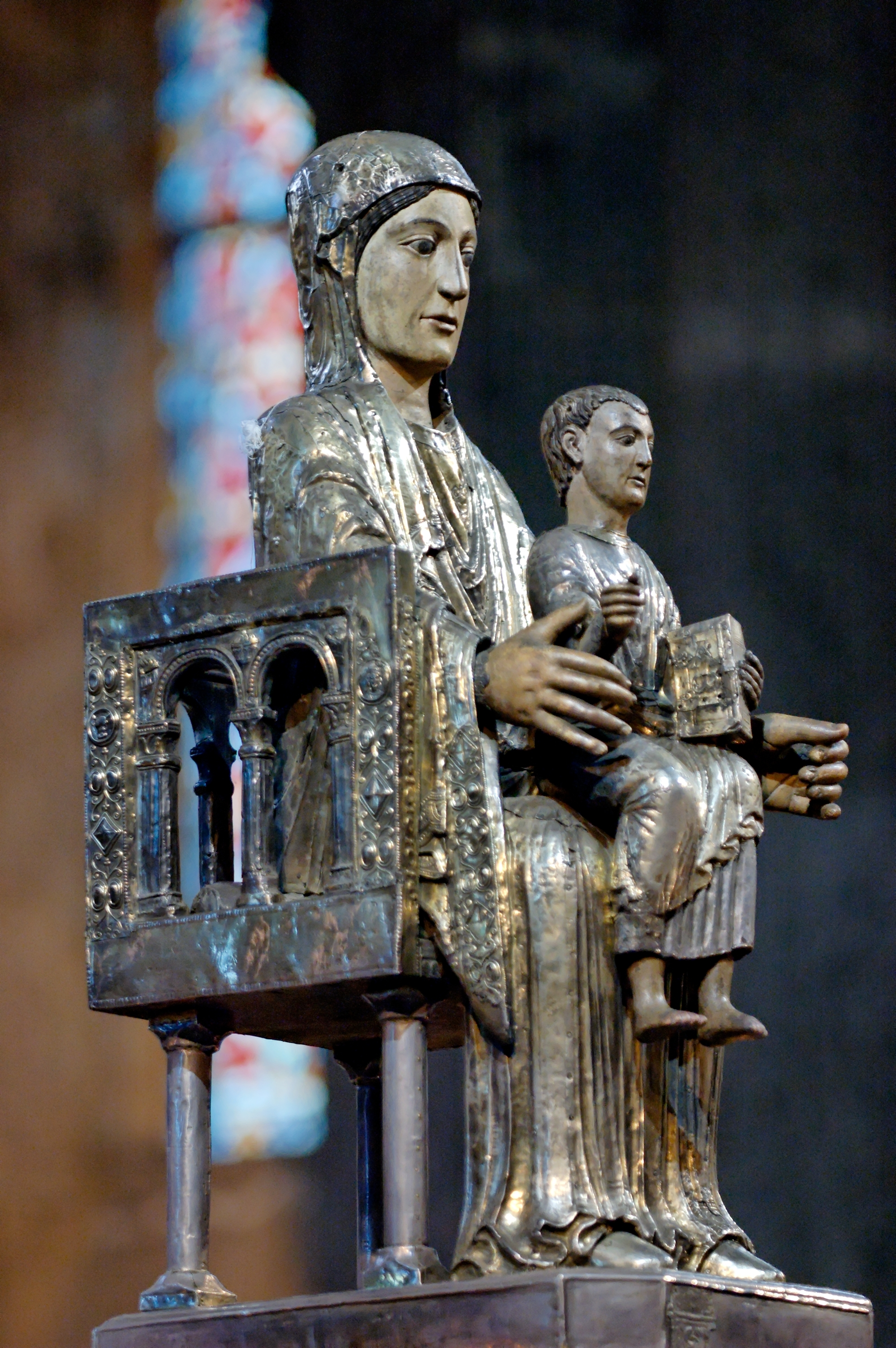 Madonna with Child. Carved wood partly painted, partly covered with layers of chased and repoussé silver, 12th century (restored in 1960). From the choir of the basilica of Orcival (Auvergne, France). Classified in 1897 as a historical monument.